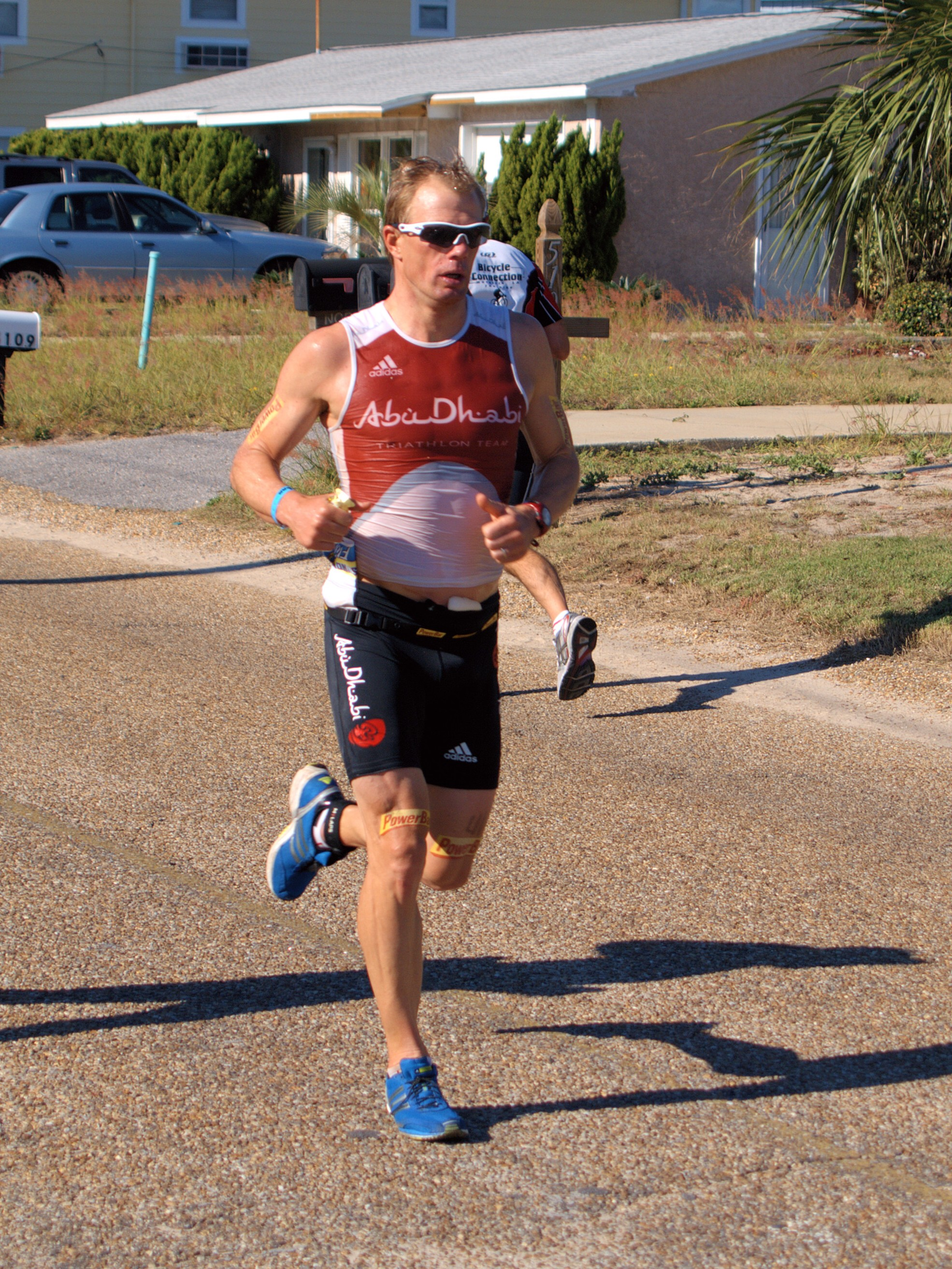 Swen Sundberg on the run at Ironman Florida 2010